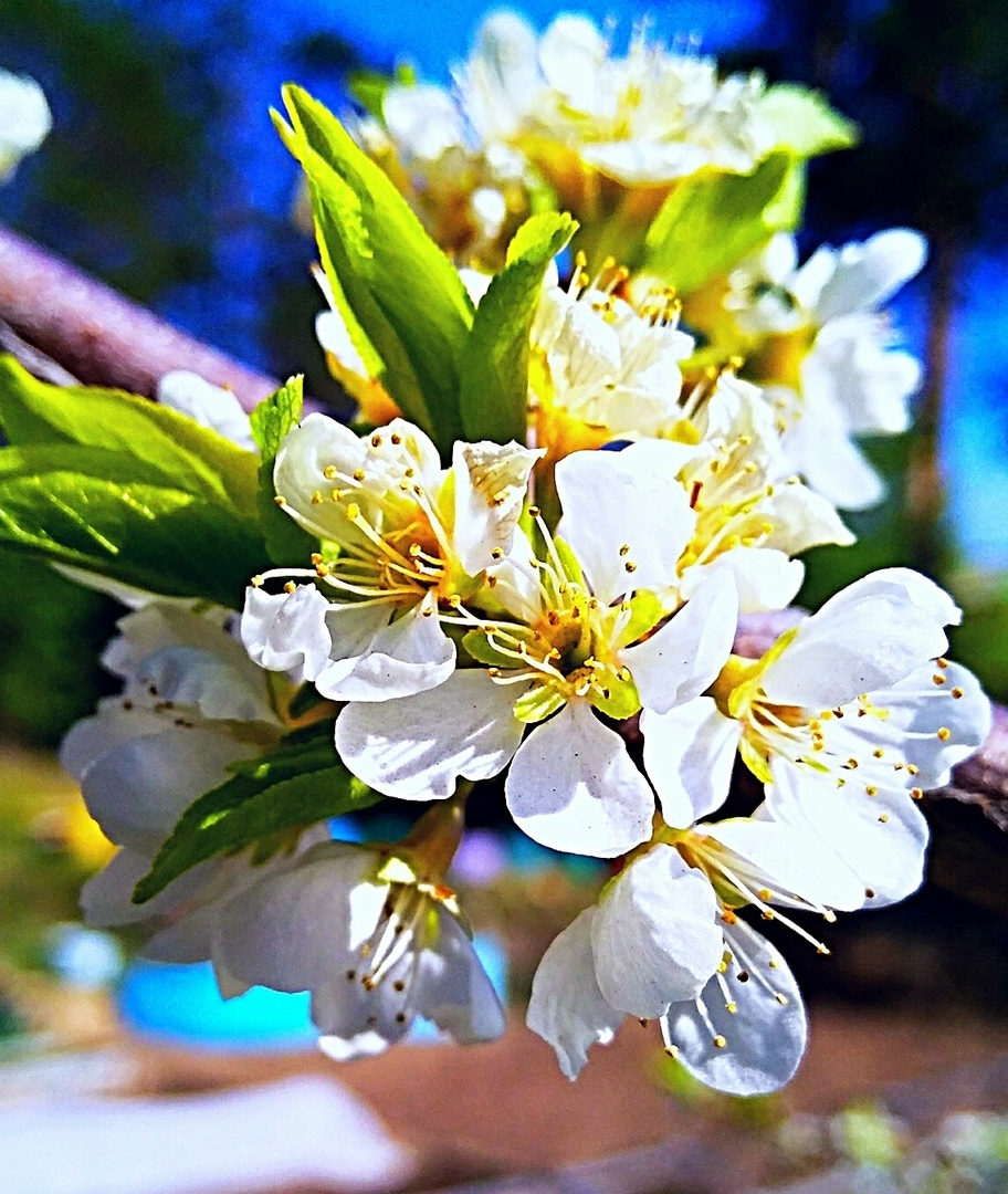 Cherry blossoms. Eastern Siberia